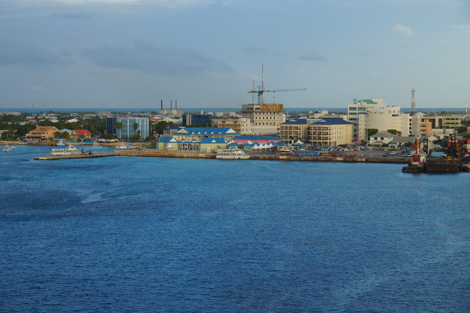 96-124 S Church St, George Town, Cayman Islands